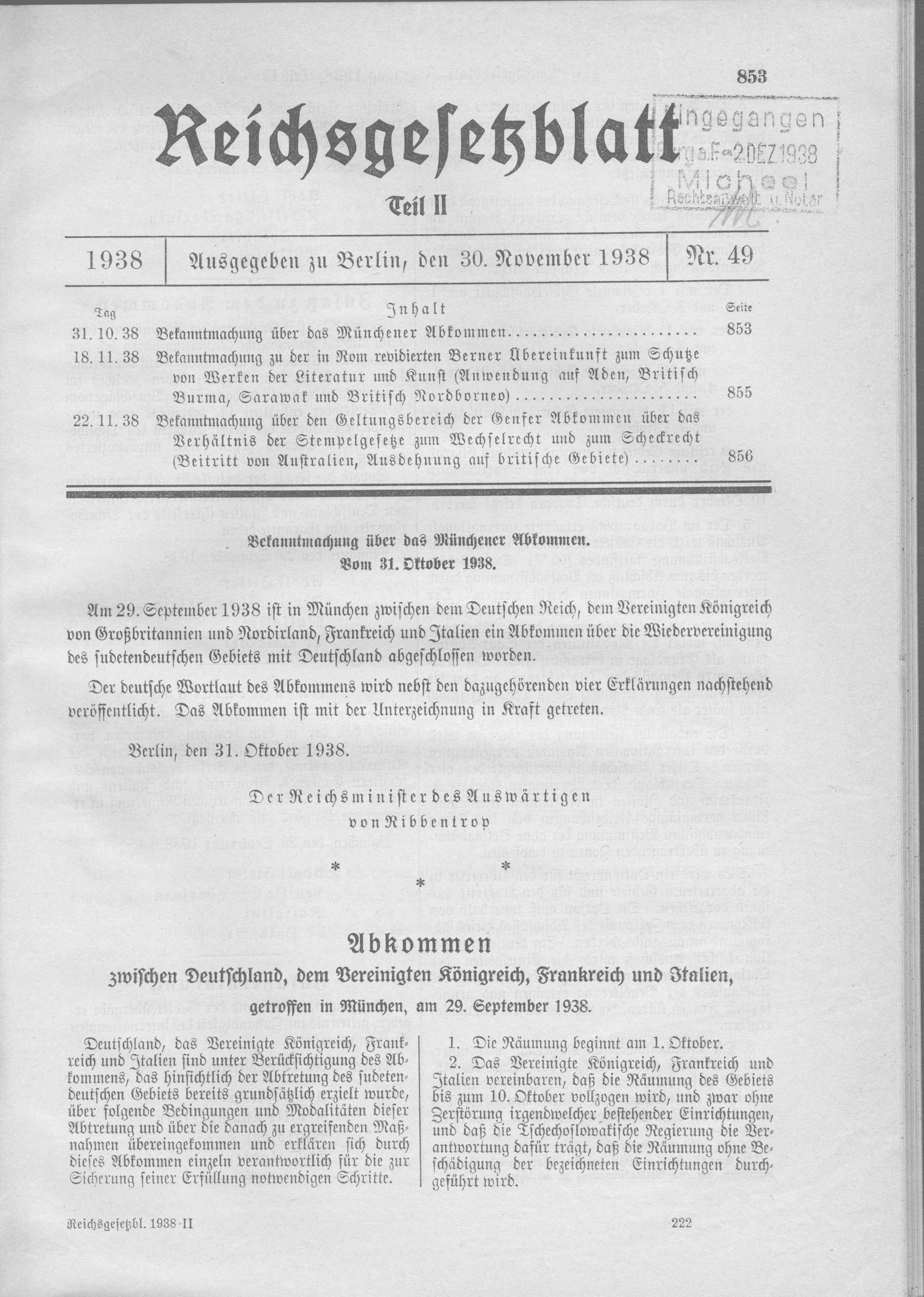 Scan from the Imperial Law Gazette of Germany, 1938, part 2